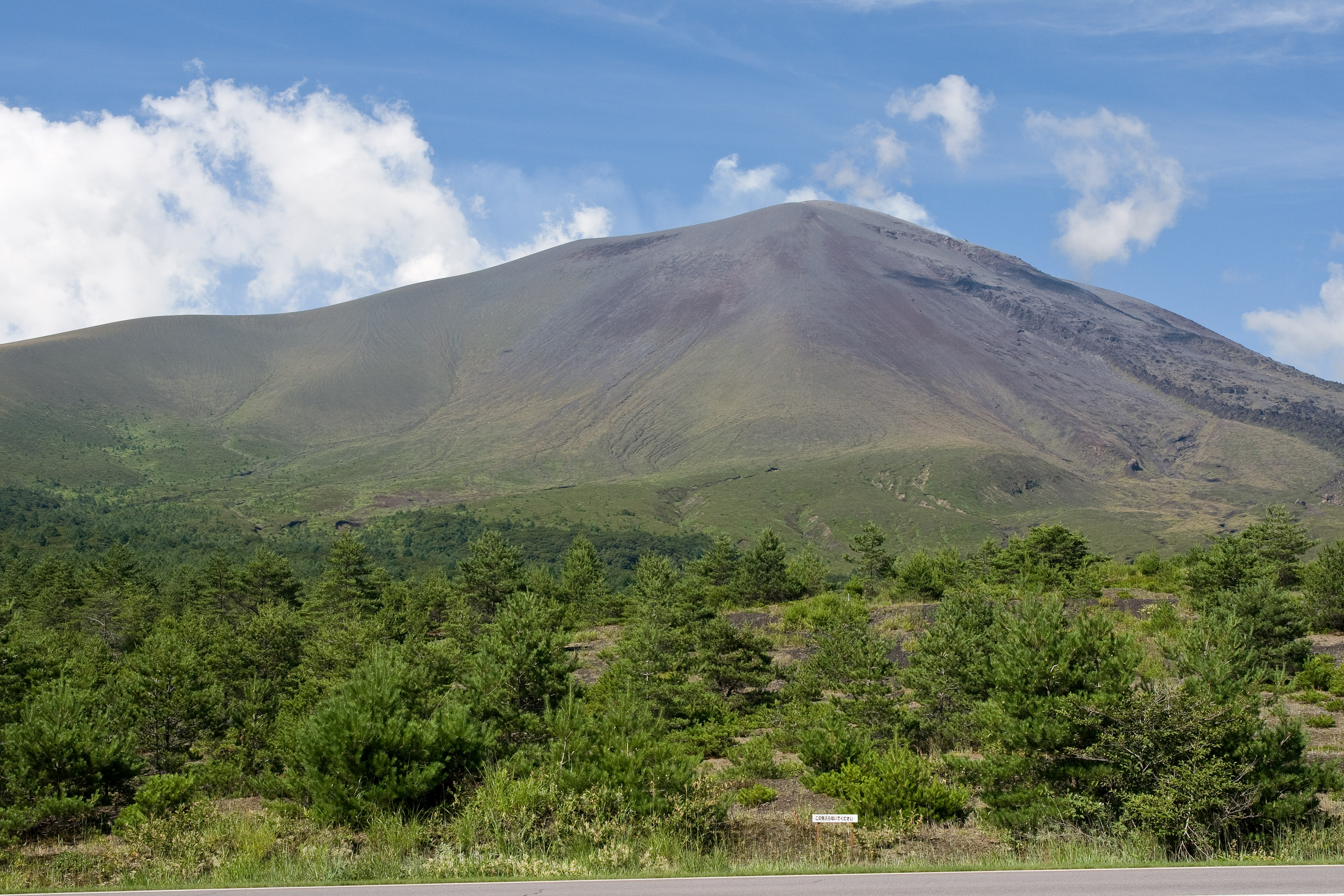 Mt.Asama as seen from Onioshi Highway, Tsumagoi Vill., Gunma Pref., Japan